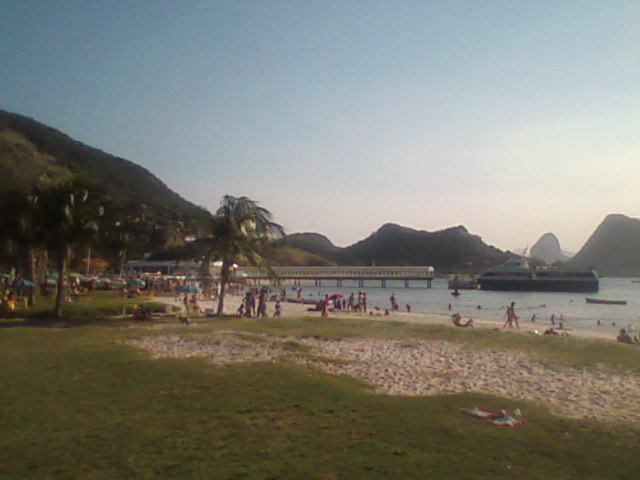 Charitas Station, Niterói, Rio de Janeiro, Brazil.